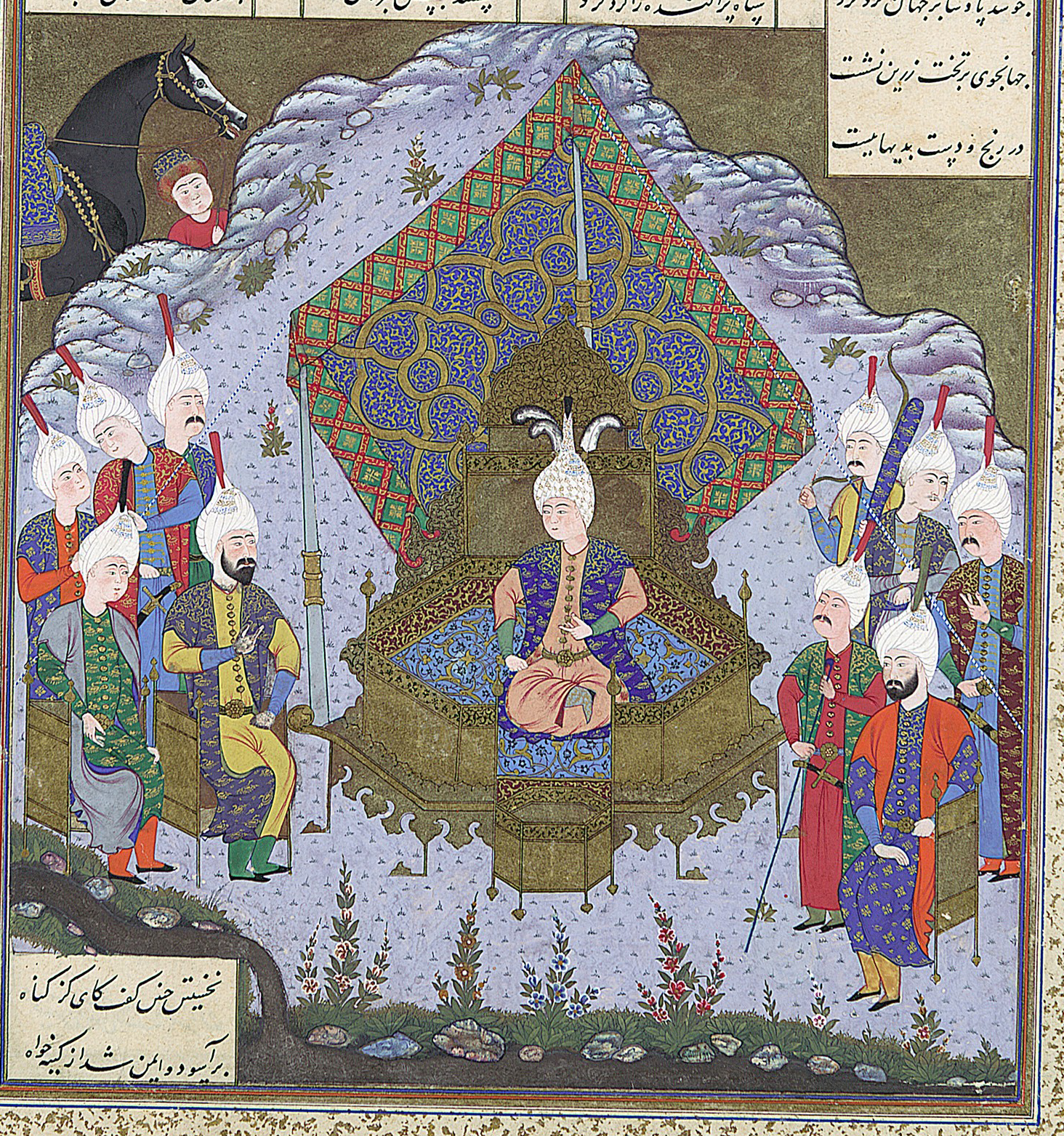 "Yazdigird II Accedes to the Throne", Folio 592r from the Shahnama (Book of Kings) of Shah Tahmasp